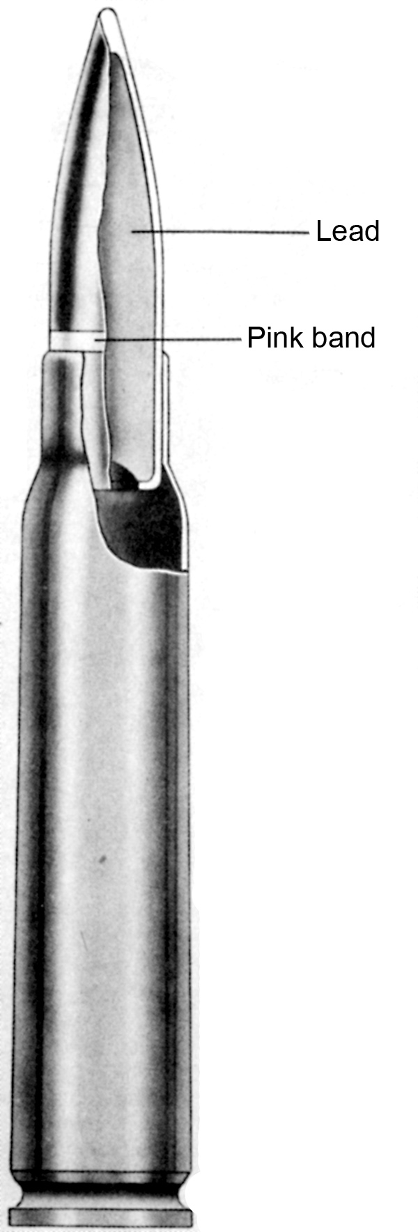 A cutaway showing a Japanese Type 99 7.7 mm rimless round as fired by the Type 99 rifle